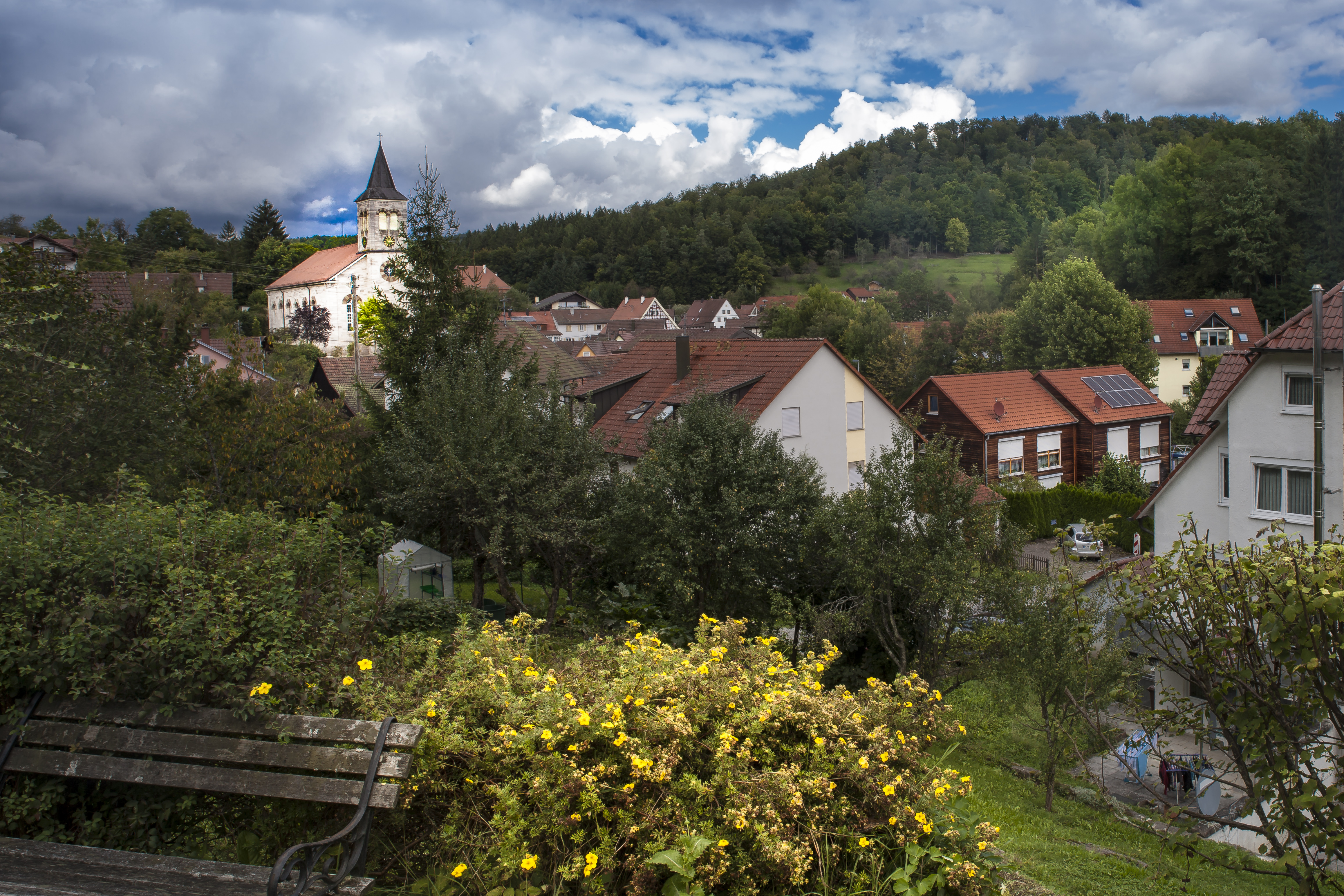 The village Spiegelberg photographed from the street "im Gässle" towards the church.